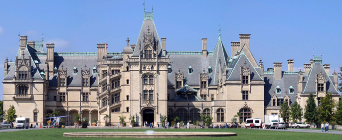 Biltmore Estate, Asheville, North Carolina, USA